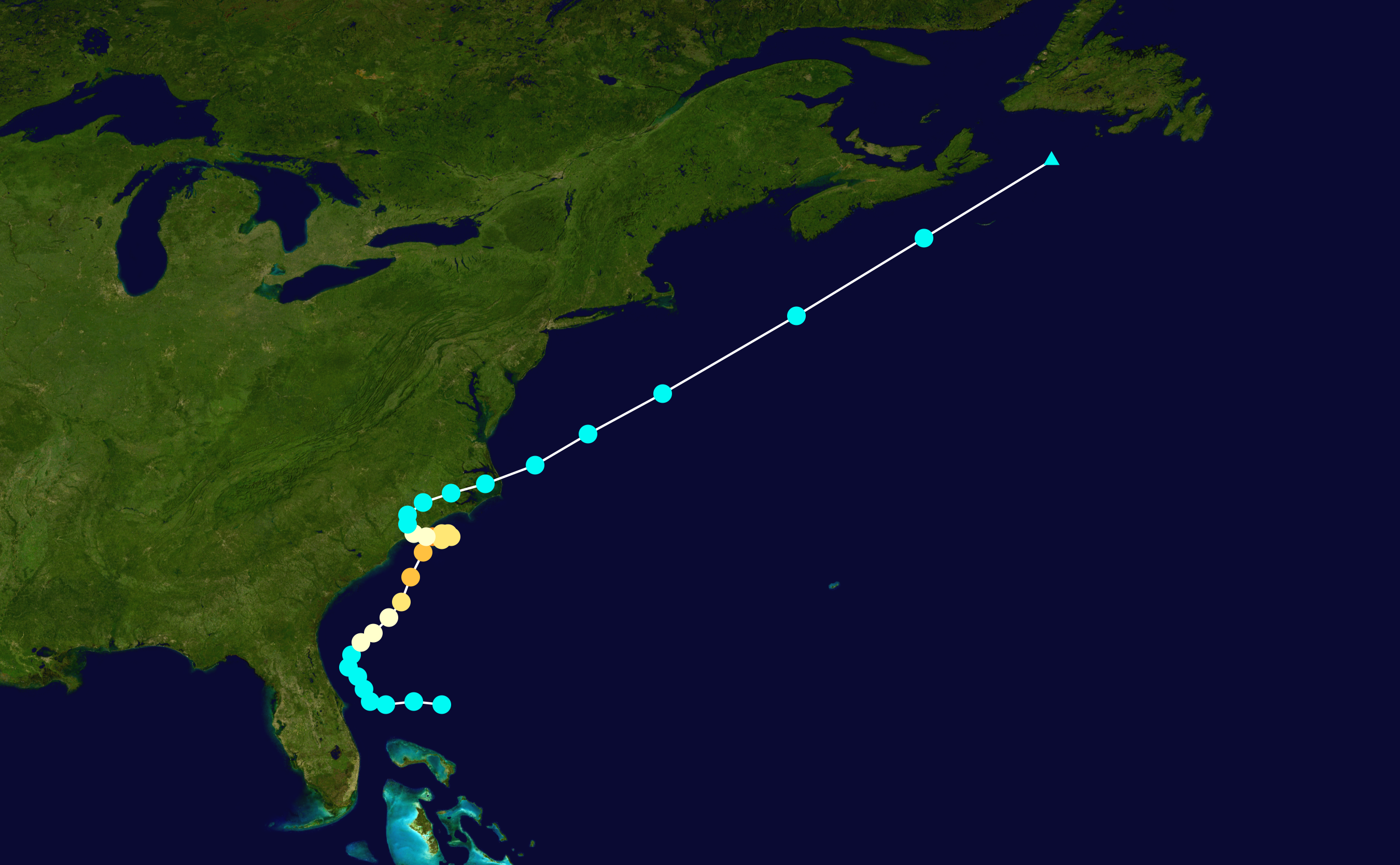 Hurricane Diana (1984) track. Uses the color scheme from the Saffir-Simpson Hurricane Scale.